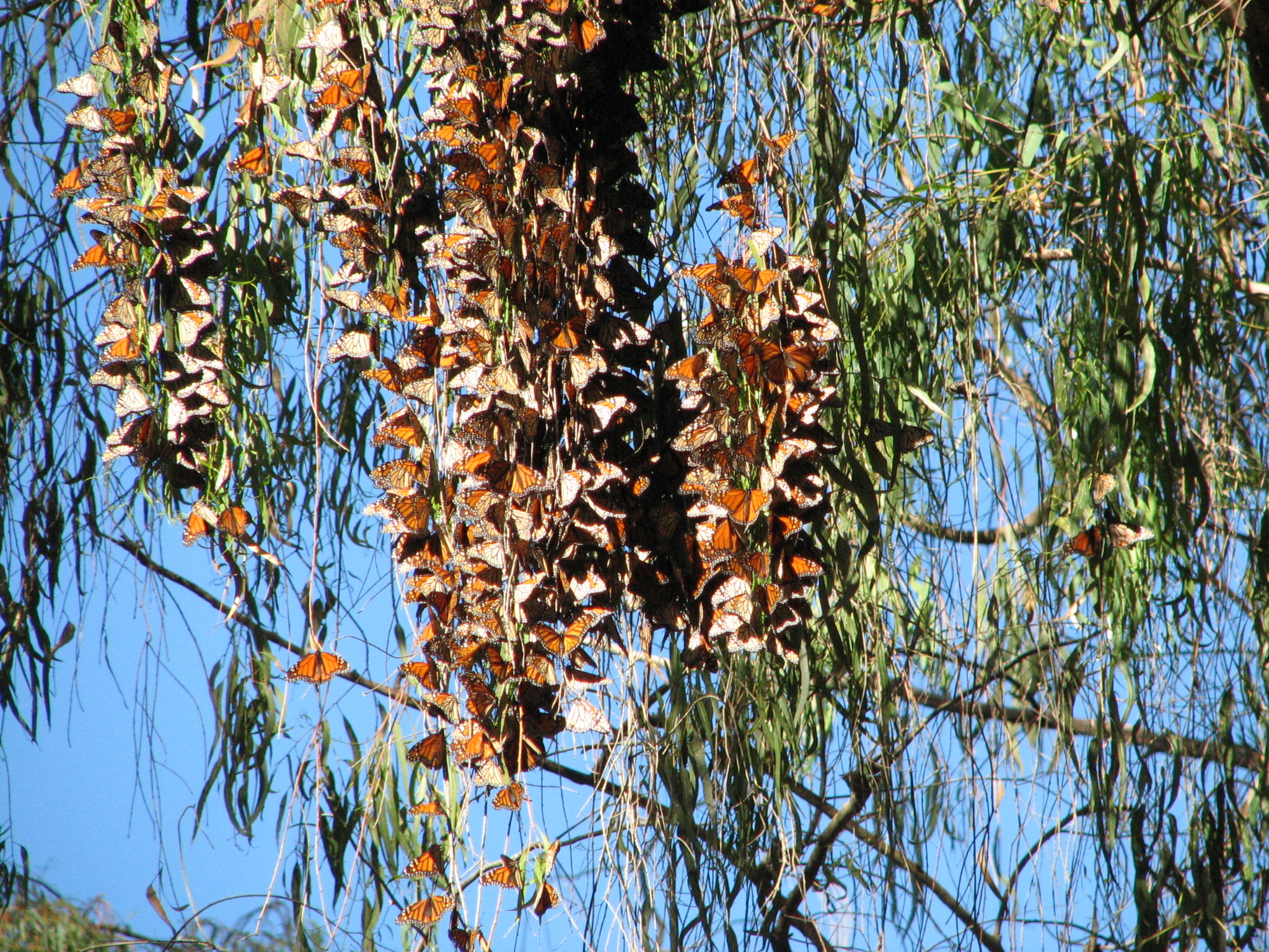 Copyright AlphaGeek Published under